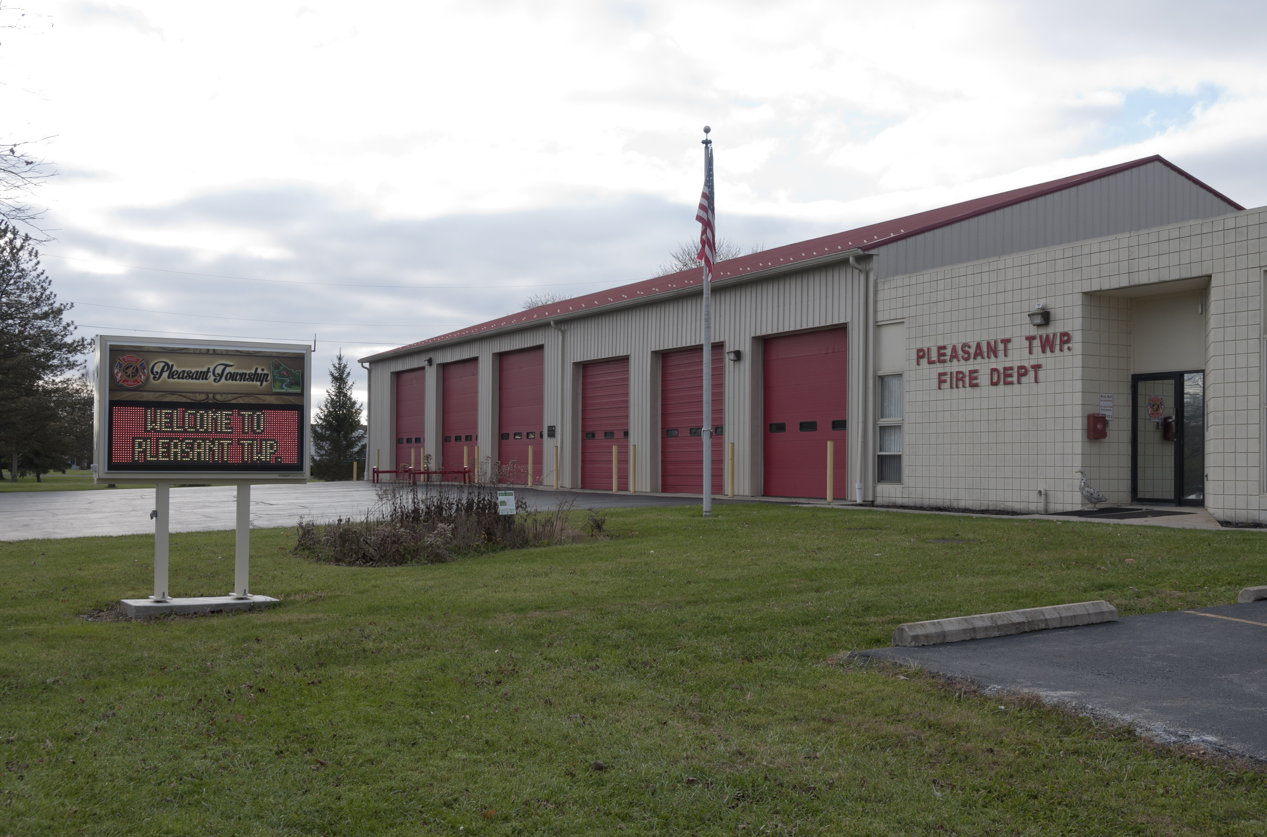 This building houses all municipal services for of Pleasant Township, Ohio. It is also the Fire station for the township. All Township Trustee Meetings and other municipal services are done here as well.